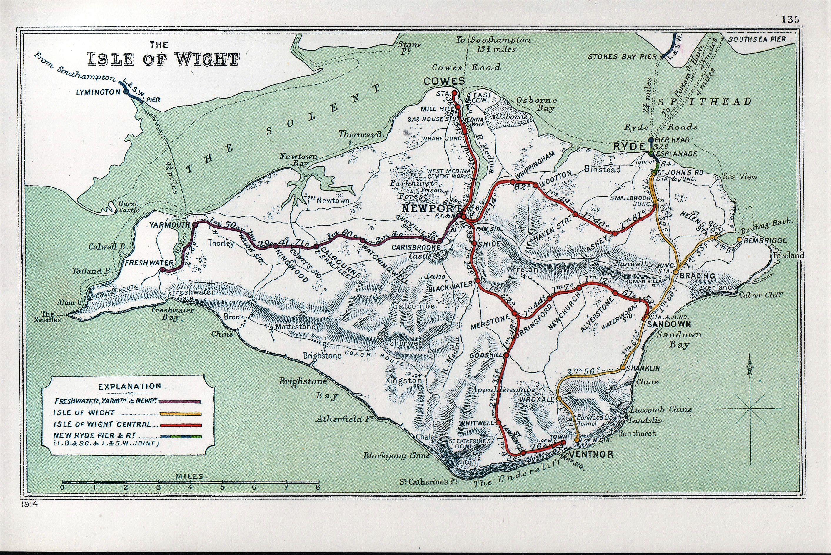 Map of the Isle of Wight railway system